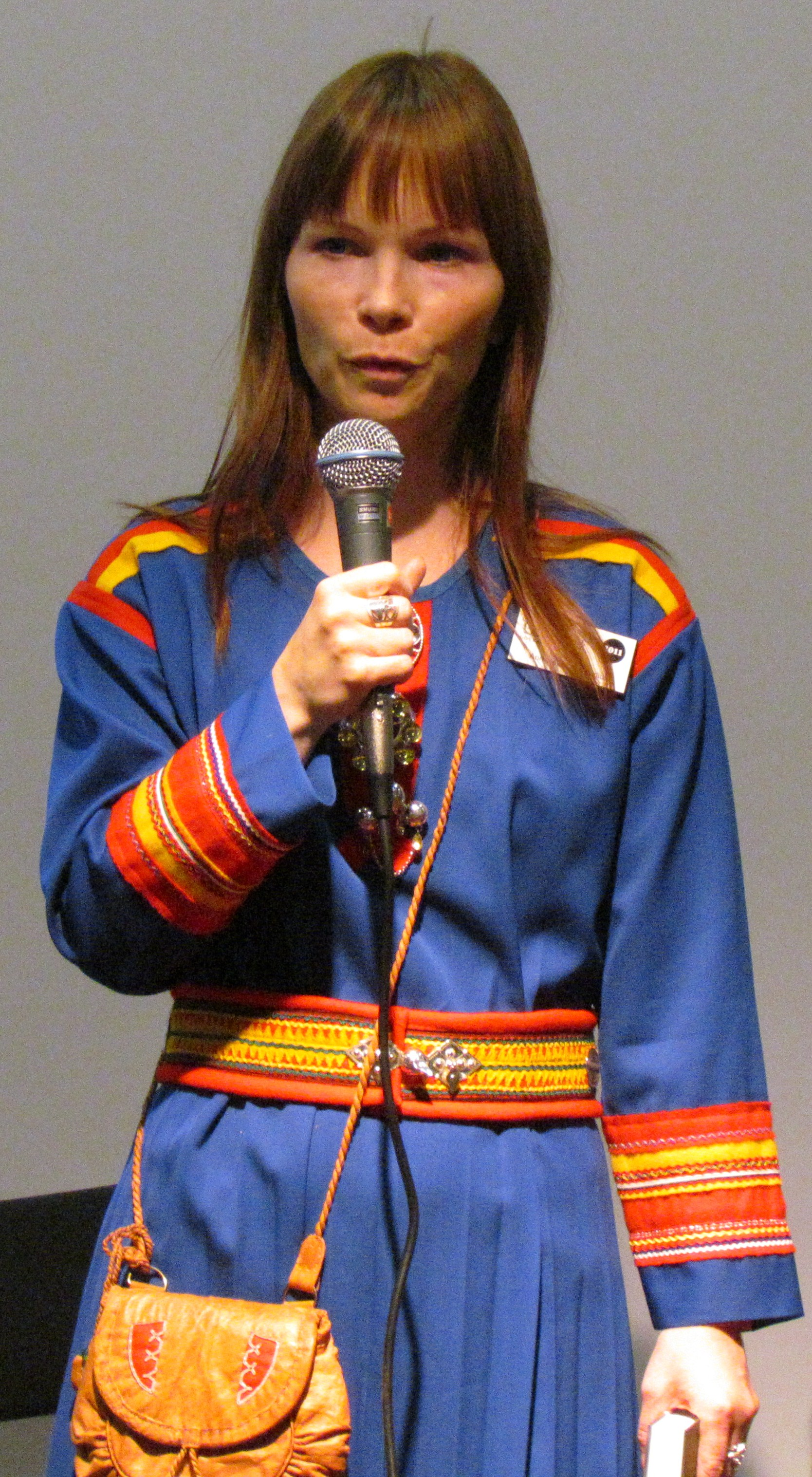 Ann-Helén Laestadius, Swedish journalist and author, wearing Sami costume.